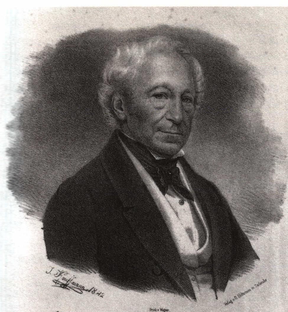 Johann Adam von Itzstein, German politician (1775-1855) see Johann Adam von Itzstein